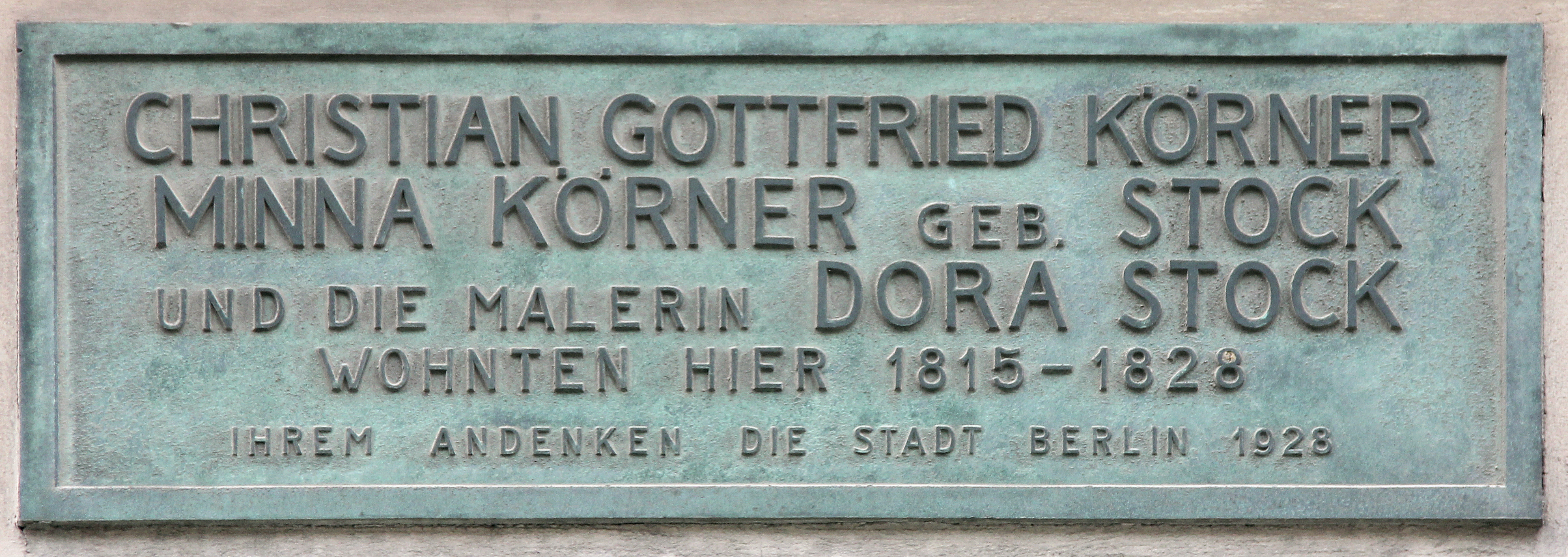 Memorial plaque, Christian Gottfried Körner, Minna Körner, Dora Stock, Brüderstraße 13, Berlin-Mitte, Germany Koordinate:52°30′51″N 13°24′10″E / 52.51417°N 13.40278°E